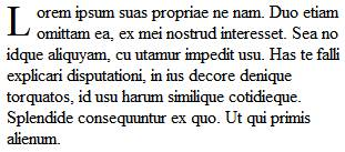 An illustration of a National Football League regulation American football field next to the silhouette of a man 1:1 scale. This illustration is purely intended to represent the relative sizes of the objects. Above the man's head is a rectangle representing the size of a bread box for further size comparison.